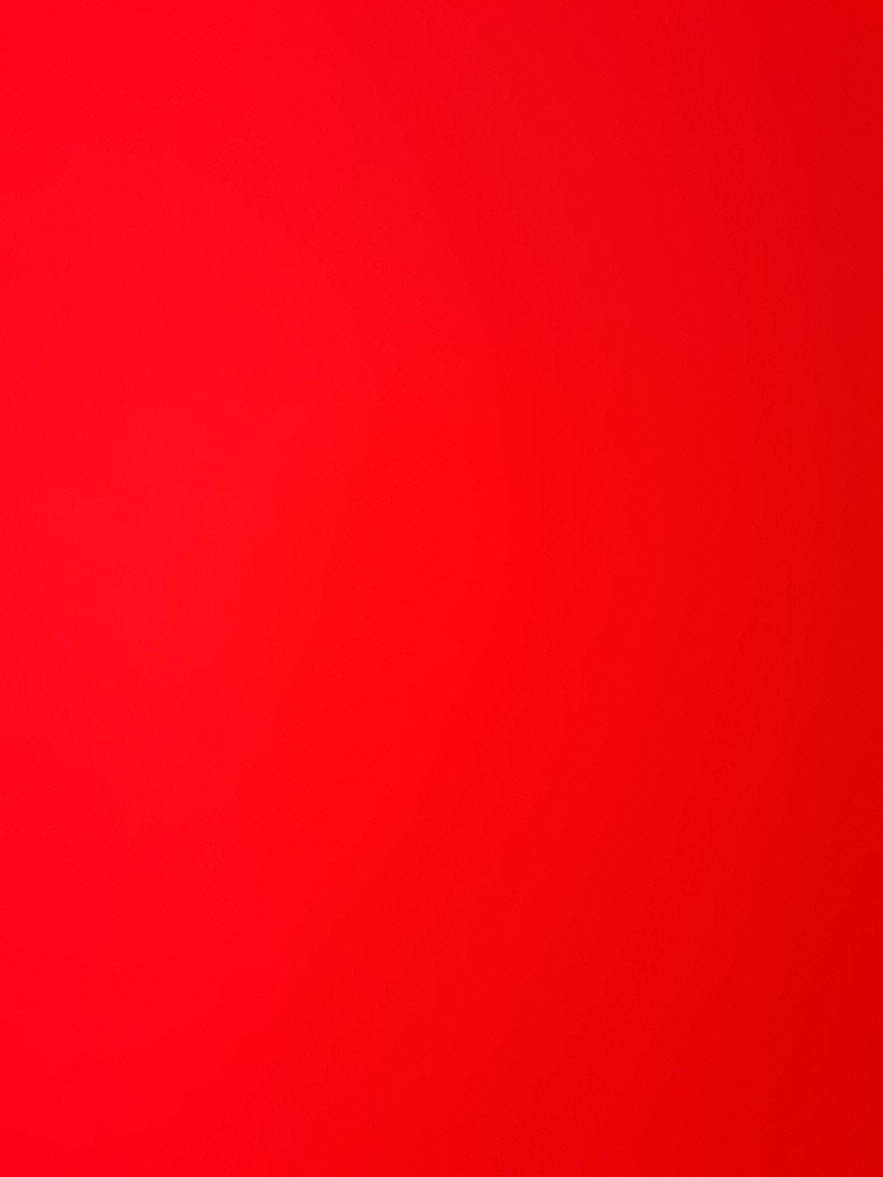 Red Color